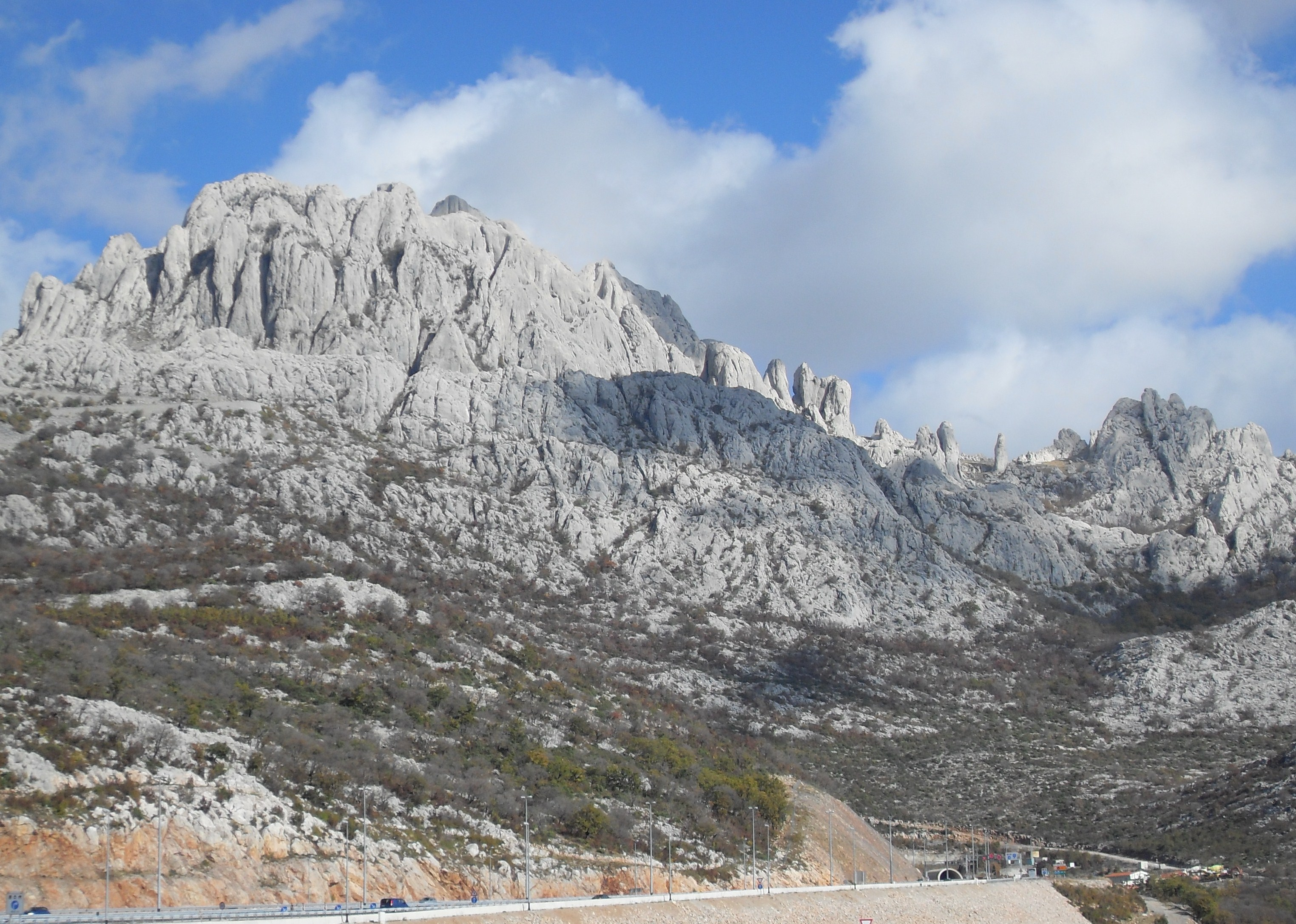 Southern entrance of the A1 into the Sveti Rok Tunnel transversing the Velebit mountains